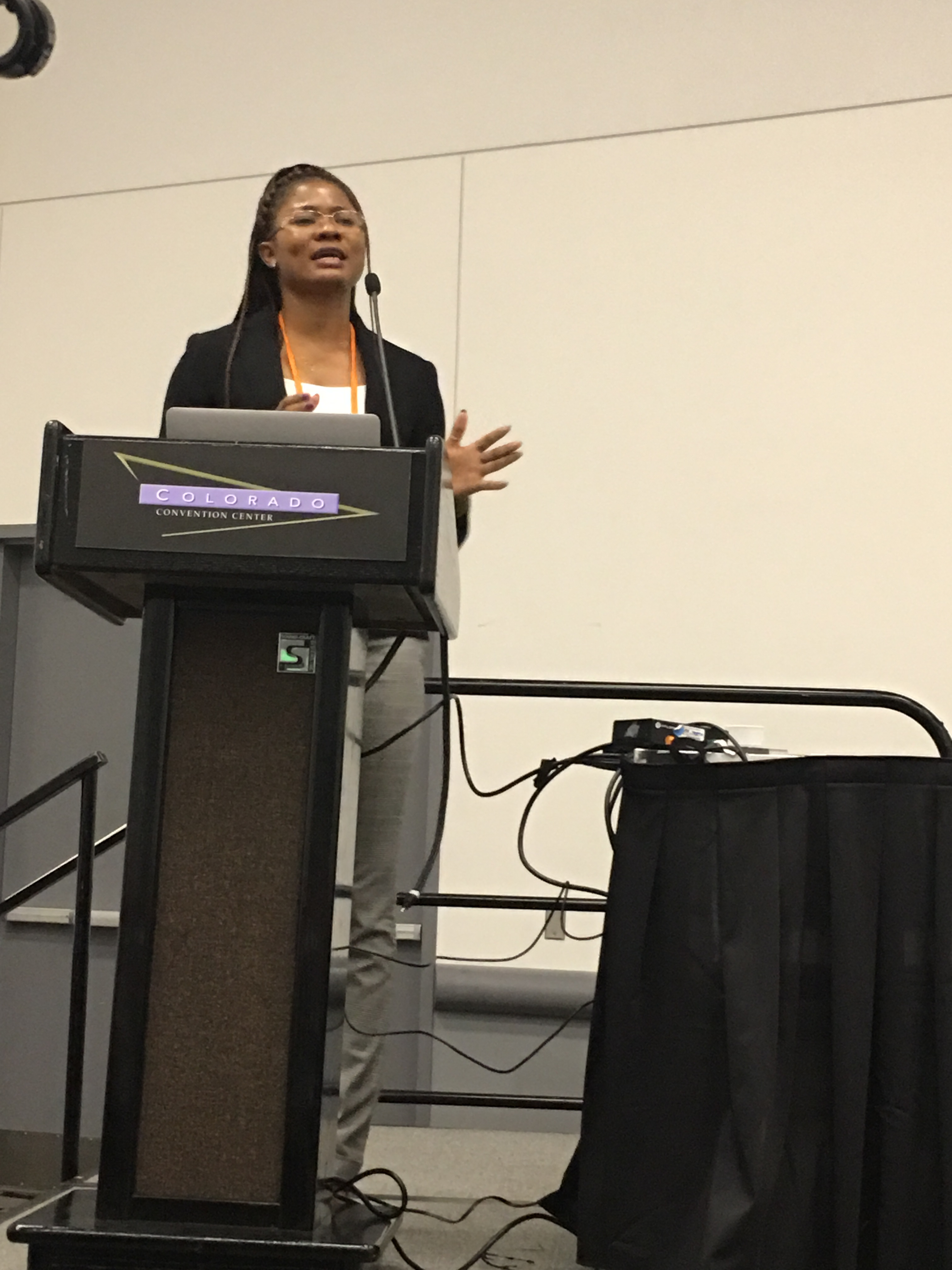 Dr. Rita Orji presenting at CHI Conference 2017, Colorado, USA